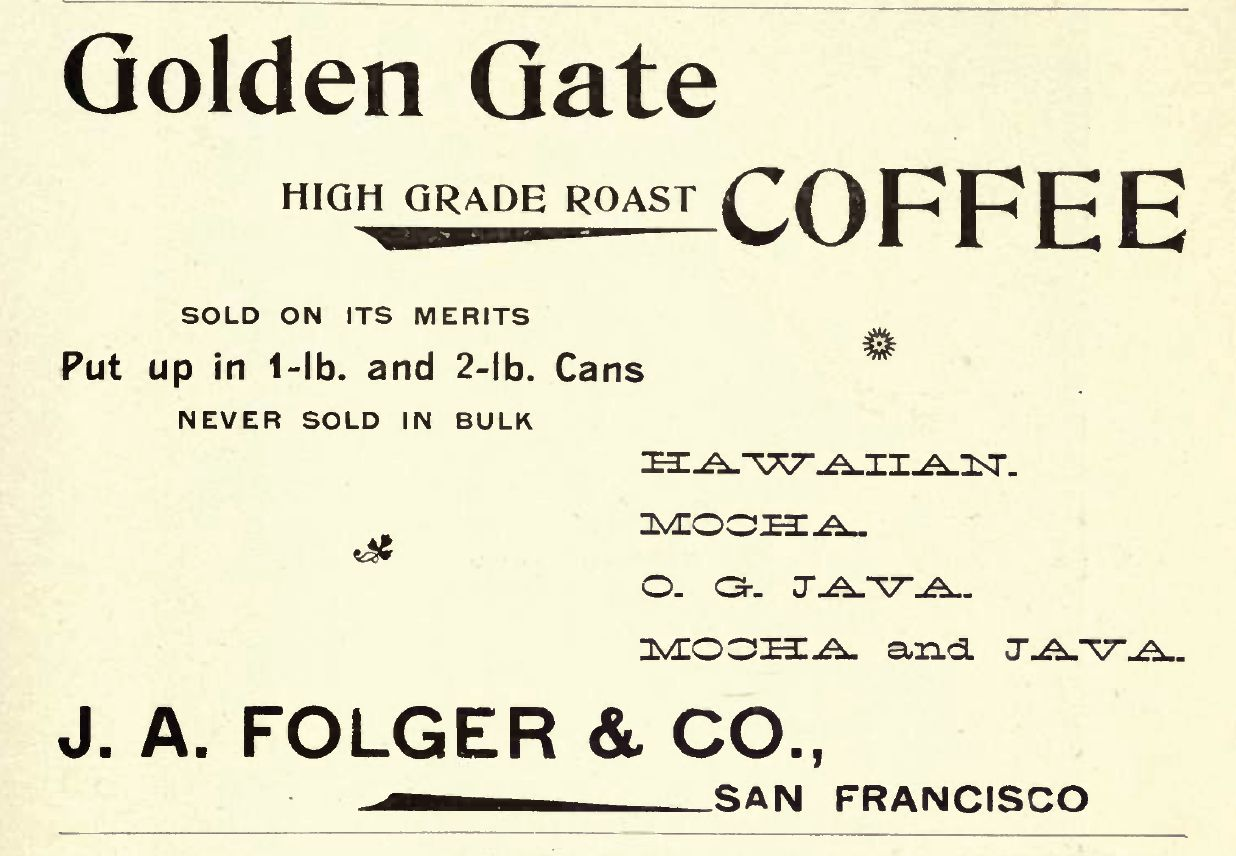 J. A. Folger & Co. Advertisement from Illustrated Roster of California Volunteer Soliders in the War with Spain (1898)